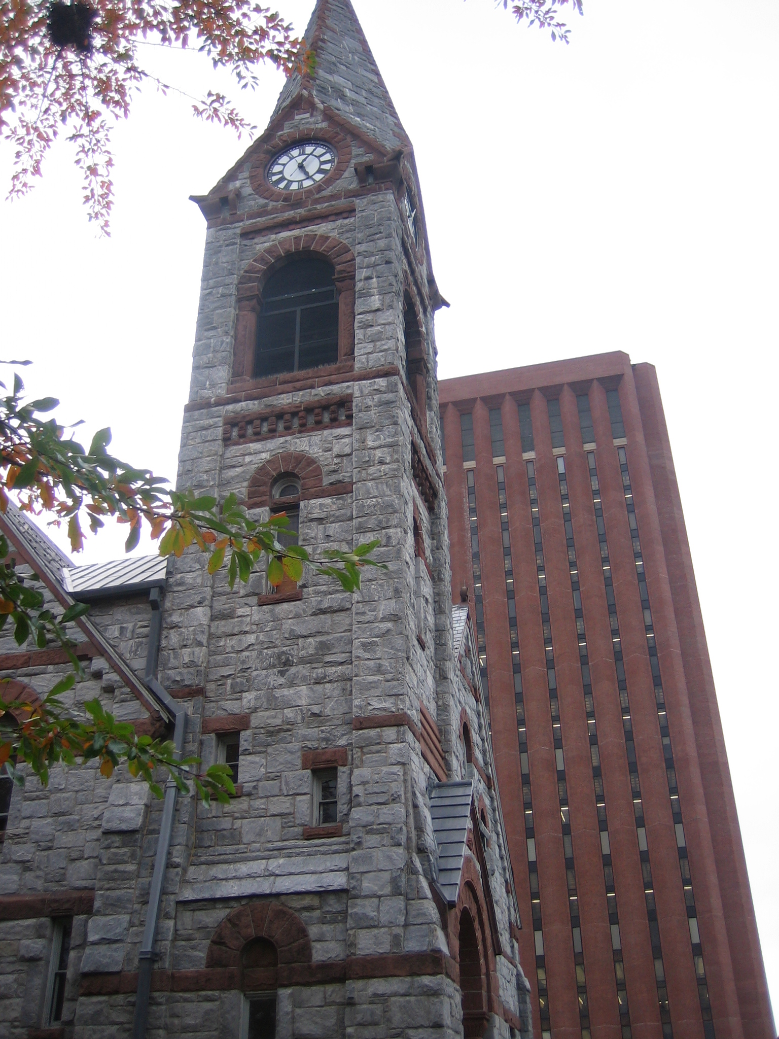 University of Massachusetts Amherst